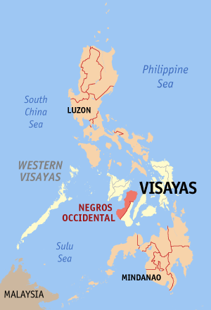 Map of the Philippines showing the location of Negros Occidental